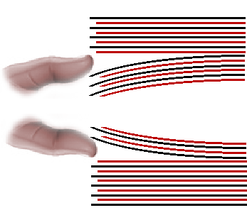 Diagram showing operation of svengali deck.